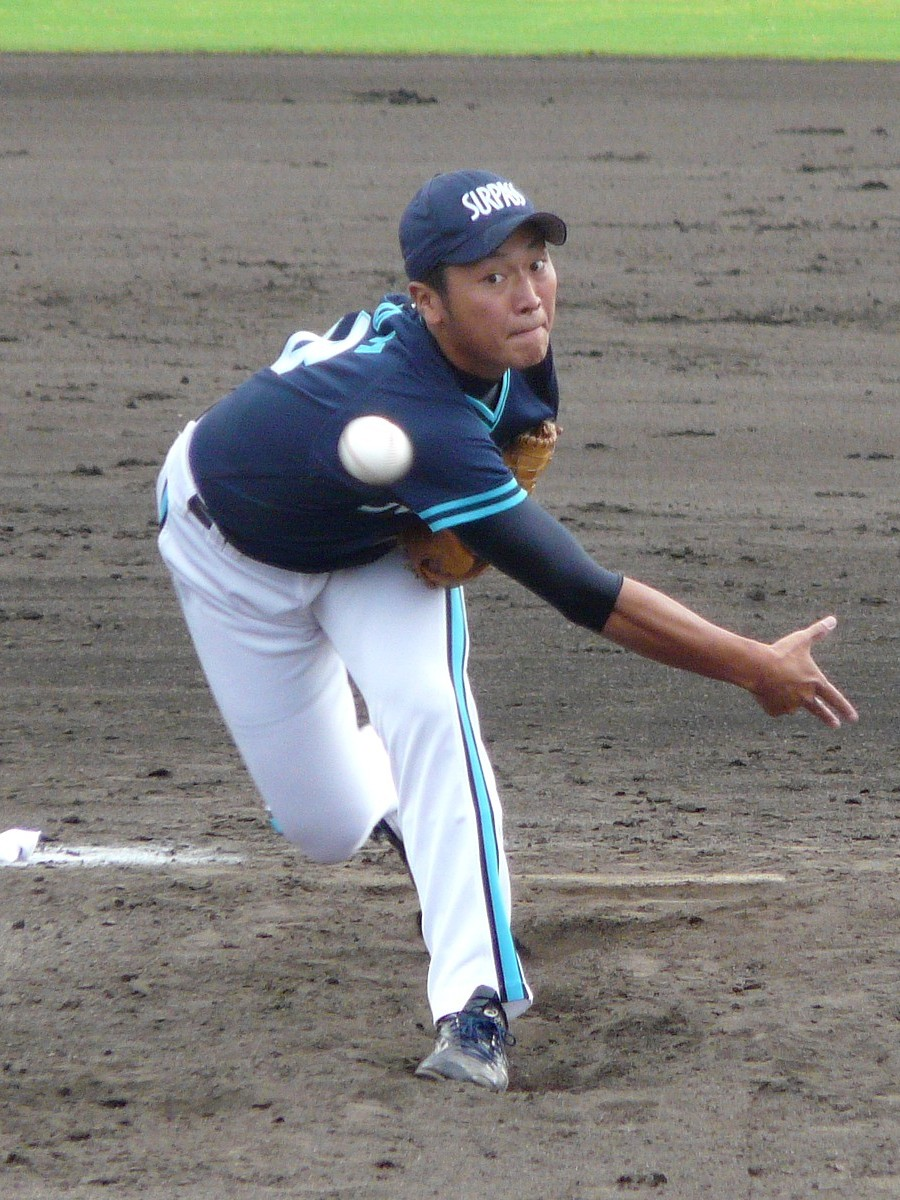 Takuma Nitou